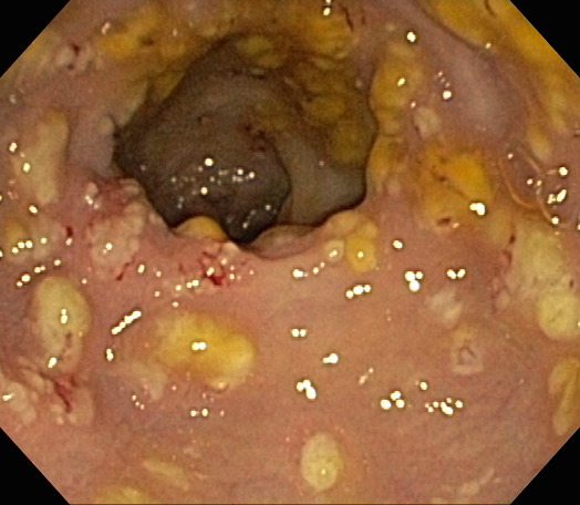 Endoscopic image of pseudomembranous colitis, taken with Olympus colonoscope.